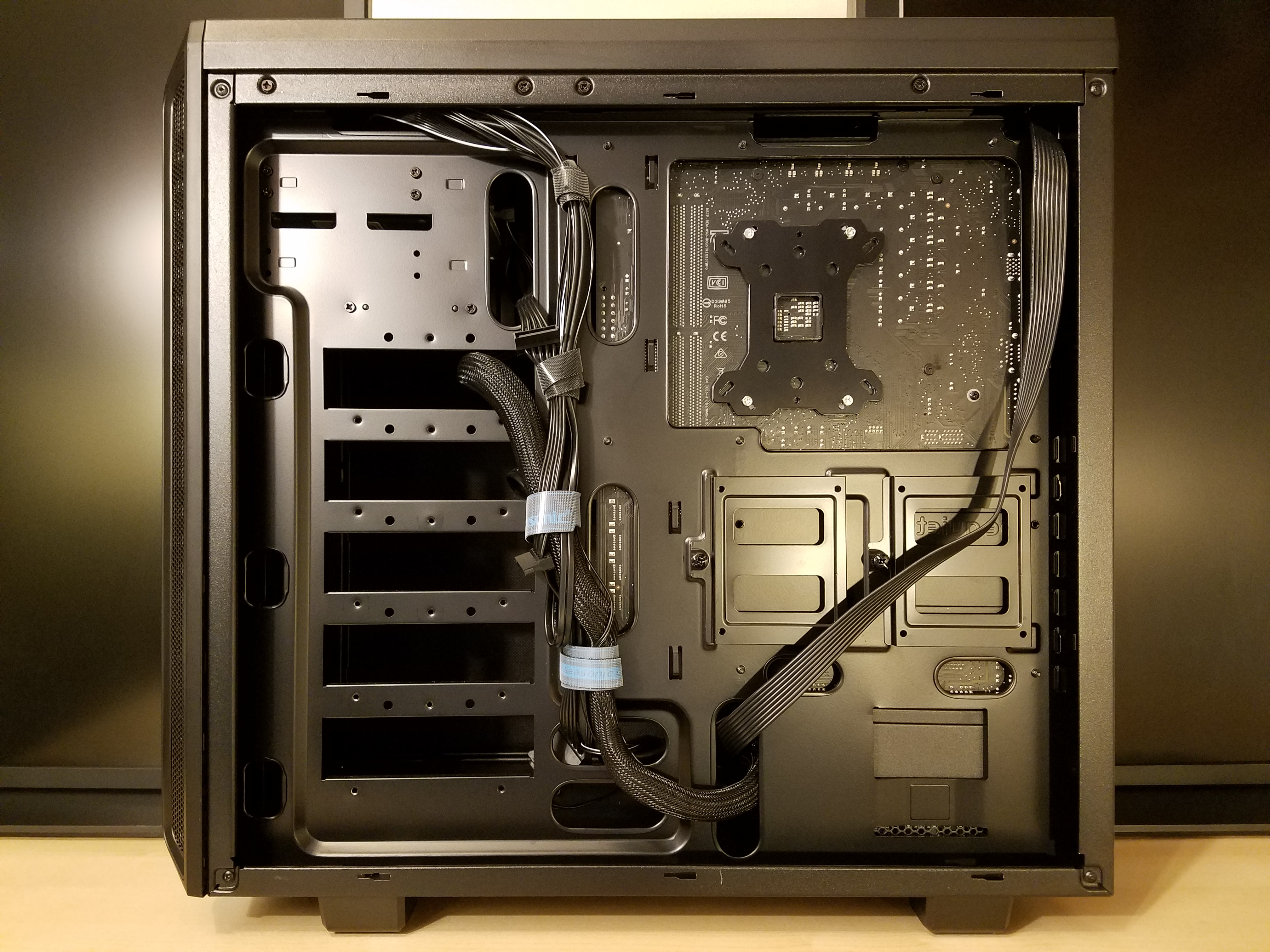 ATX format computer case, seen from the right side of the front of the case. You can see the attachment to the motherboard of the cooler cooling processor slightly upper right. All of the cables start from the bottom right power supply and are all connected to the motherboard with the exception of one powering the Blu-ray player / writer located at the top left. All 3.5-inch slots have been removed on the bottom left side, the PC is equipped with an SSD in m.2 format and therefore does not need such bays.